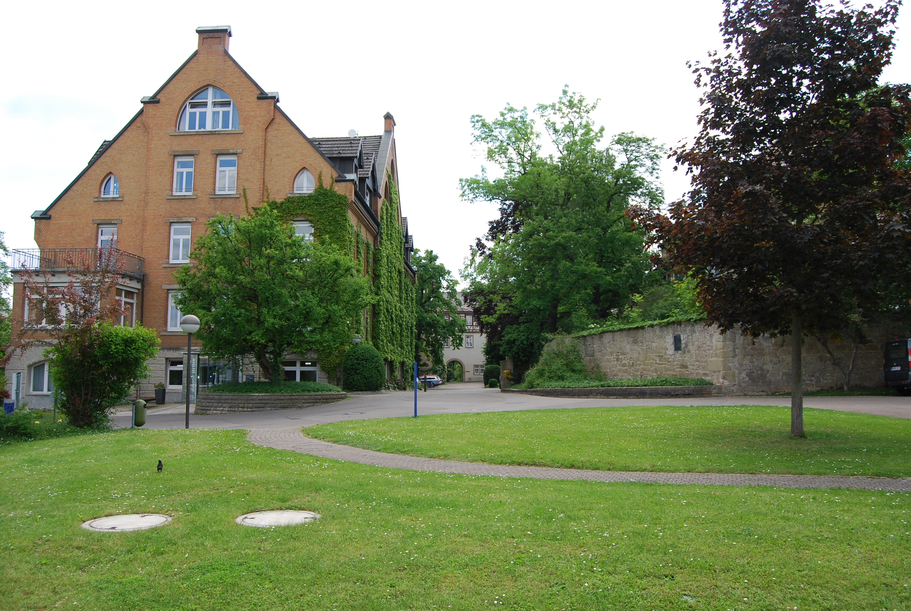 Main administration of "Diakonie Stetten e.V."